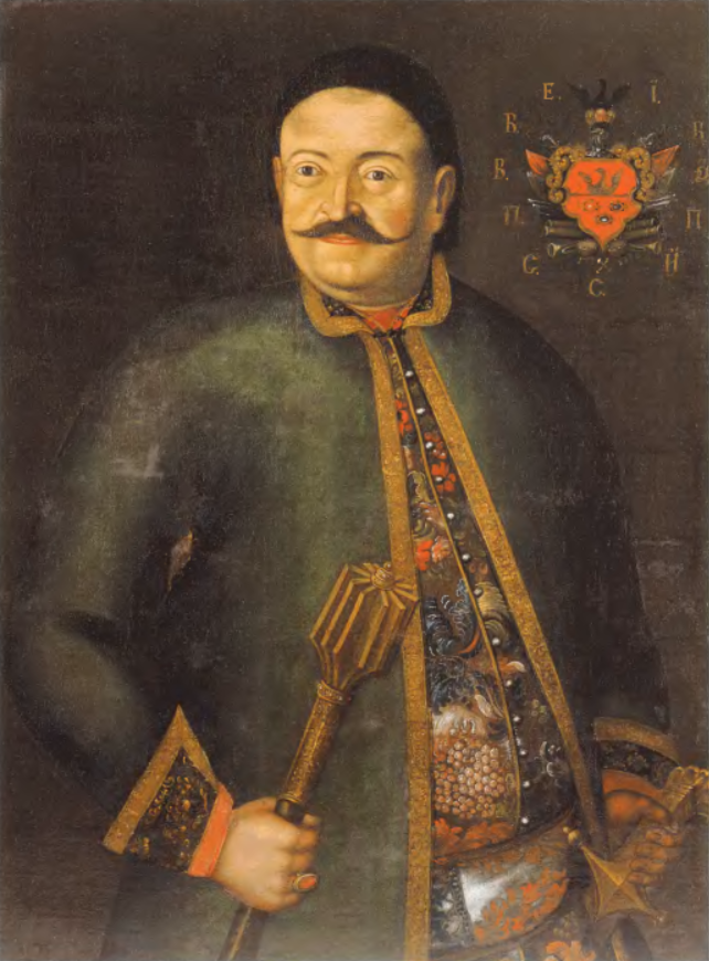 The parade portrait of Semen Sulima - Ukrainian noble.